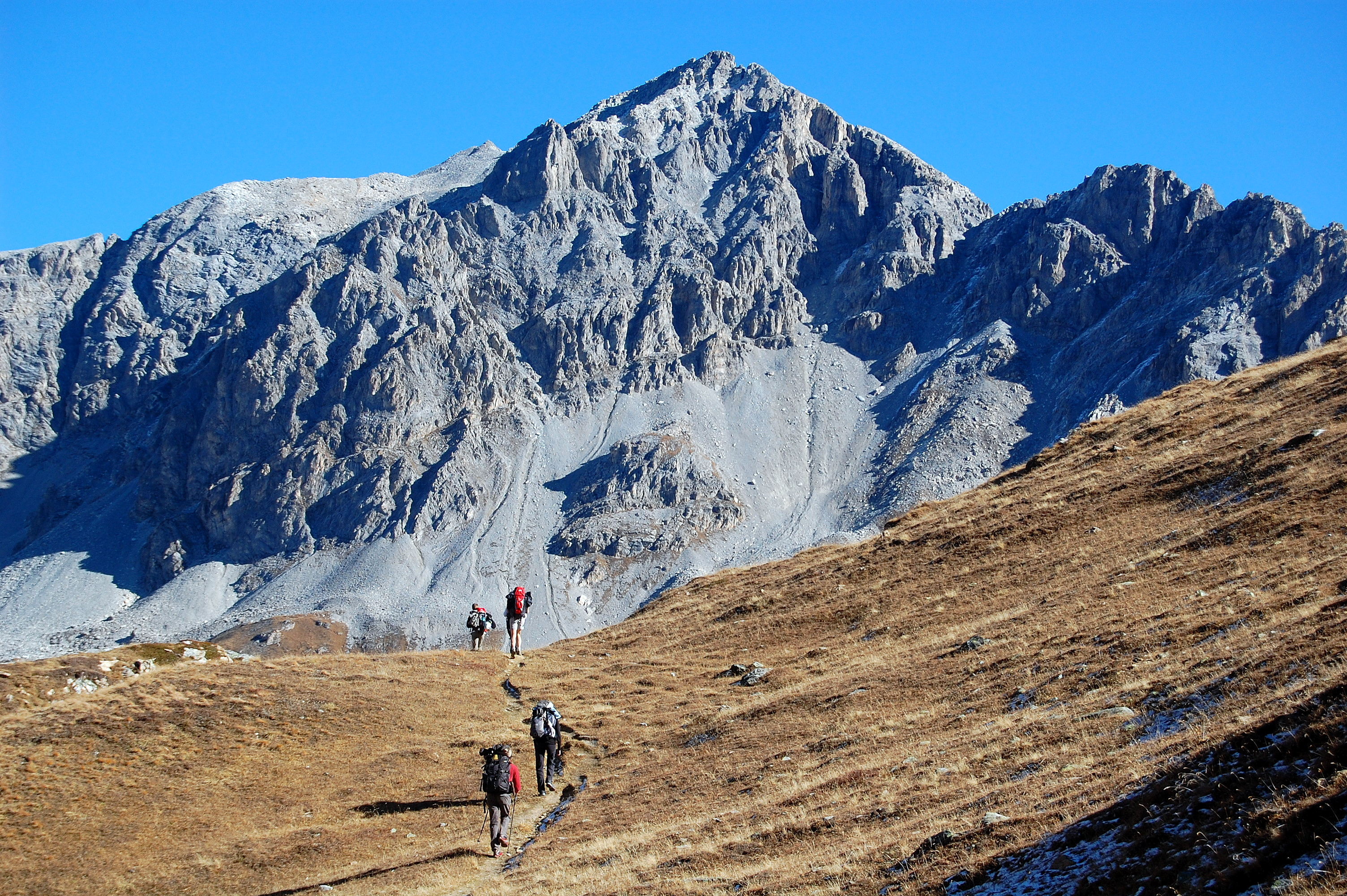 The Rochers Rouges from the val de Genet at the end of the fall, Vanoise National park, Champagny en Vanoise, France